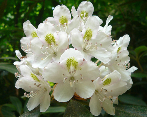 image of cluster of flowers of Rhododendron maximum